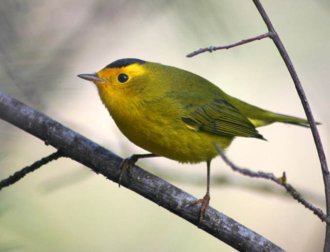 Wilson's Warbler (Wilsonia pusilla) in Spokane, Washington state, USA.